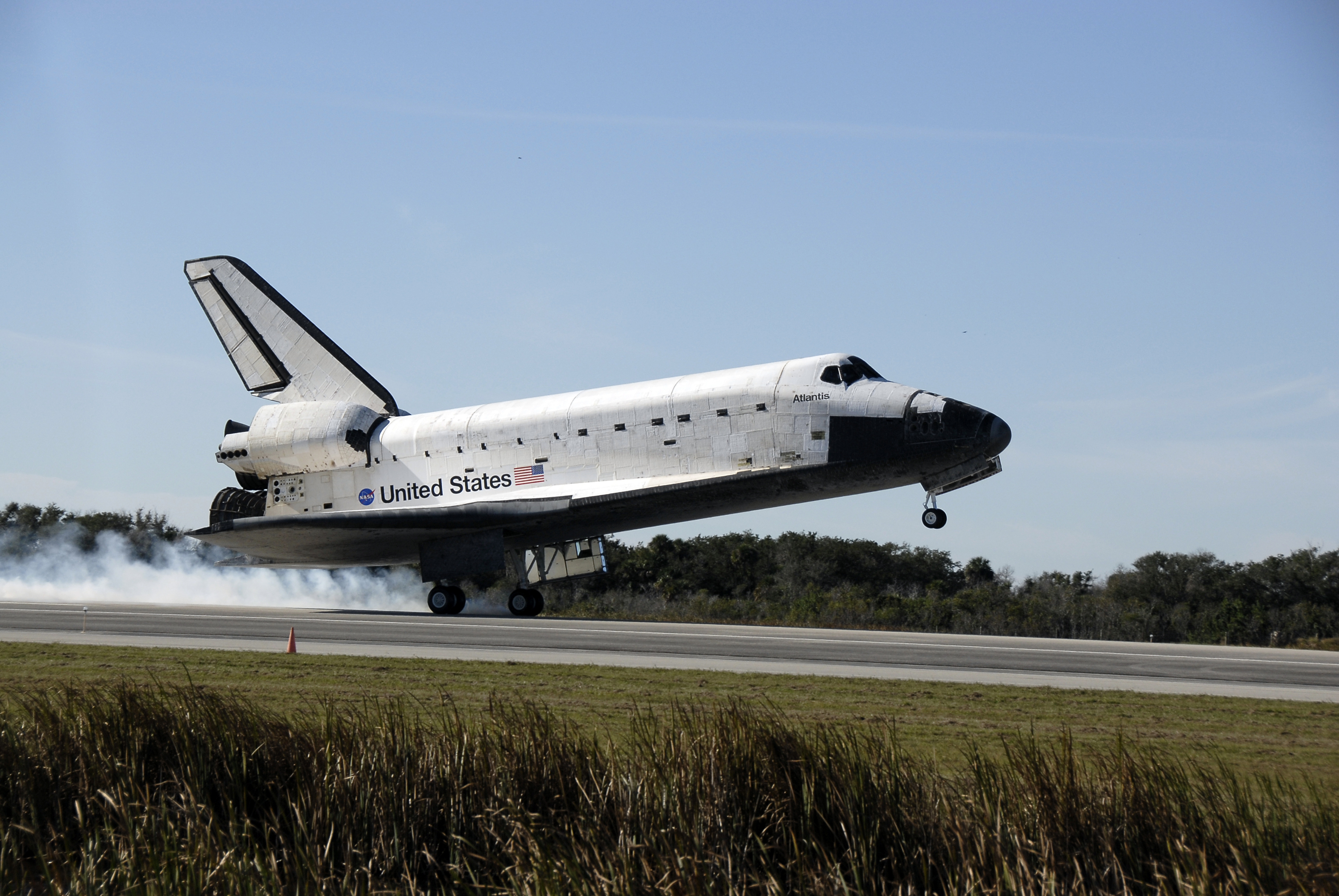 CAPE CANAVERAL, Fla. - Space shuttle Atlantis kicks up dust as it touches down on Runway 33 at the Shuttle Landing Facility at NASA's Kennedy Space Center in Florida after 11 days in space, completing the 4.5-million mile STS-129 mission on orbit 171. Main gear touchdown was at 9:44:23 a.m. EDT. Nose gear touchdown was at 9:44:36 a.m., and wheels stop was at 9:45:05 a.m. Aboard Atlantis are Commander Charles O. Hobaugh; Pilot Barry E. Wilmore; Mission Specialists Leland Melvin, Randy Bresnik, Mike Foreman and Robert L. Satcher Jr.; and Expedition 20 and 21 Flight Engineer Nicole Stott who spent 87 days aboard the International Space Station. STS-129 is the final space shuttle Expedition crew rotation flight on the manifest. On STS-129, the crew delivered 14 tons of cargo to the orbiting laboratory, including two ExPRESS Logistics Carriers containing spare parts to sustain station operations after the shuttles are retired next year. For information on the STS-129 mission and crew, visit